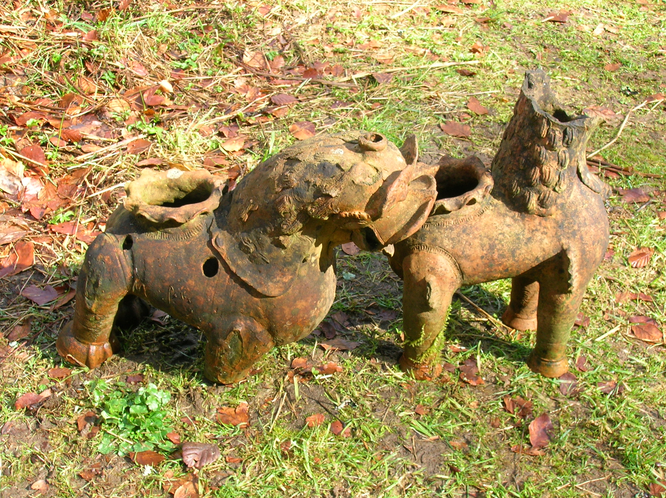 A pair of 19th Century Dragon shaped pottery planters from Kindrogan House, Enochdu, Scotland